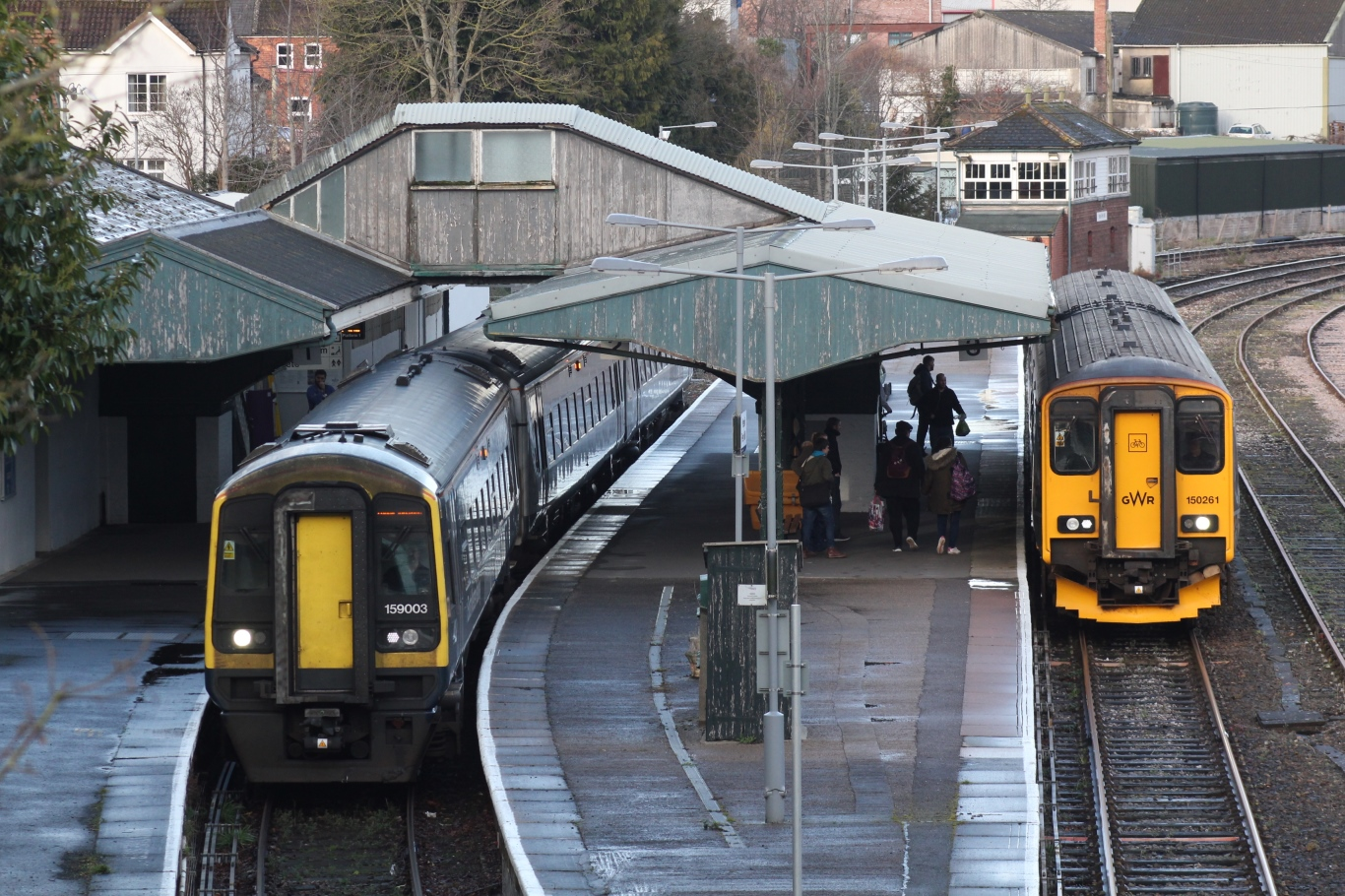 A rare meeting of two companies' trains at Yeovil Pen Mill station. On the left is South Western Railway's 159003 which as arrived from London Waterloo and is forming the 16:31 service back to Yeovil Junction. On the right is Great Western Railway's 150261 which is arriving from Bristol and will leave at 16:33 for Weymouth.